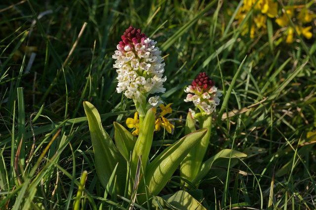 Burnt Orchid (Orchis ustulata) Burnt Orchids are one of our smaller orchids, with a maximum height of 6 inches, and often much shorter (as here - compare the Birds Foot Trefoil flowers behind). They occur in short calcareous grassland, with a few sites in Wiltshire (as here), Hampshire and East Sussex holding the biggest colonies. The reference to "burnt" in the name refers to the coloured tip, which supposedly has the appearance of scorching - in the past they were known as Burnt Tip Orchids, for that reason.